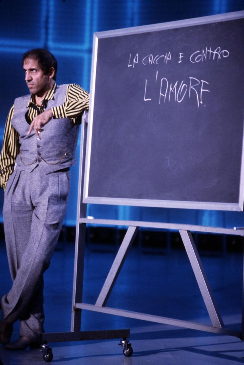 Fantastico